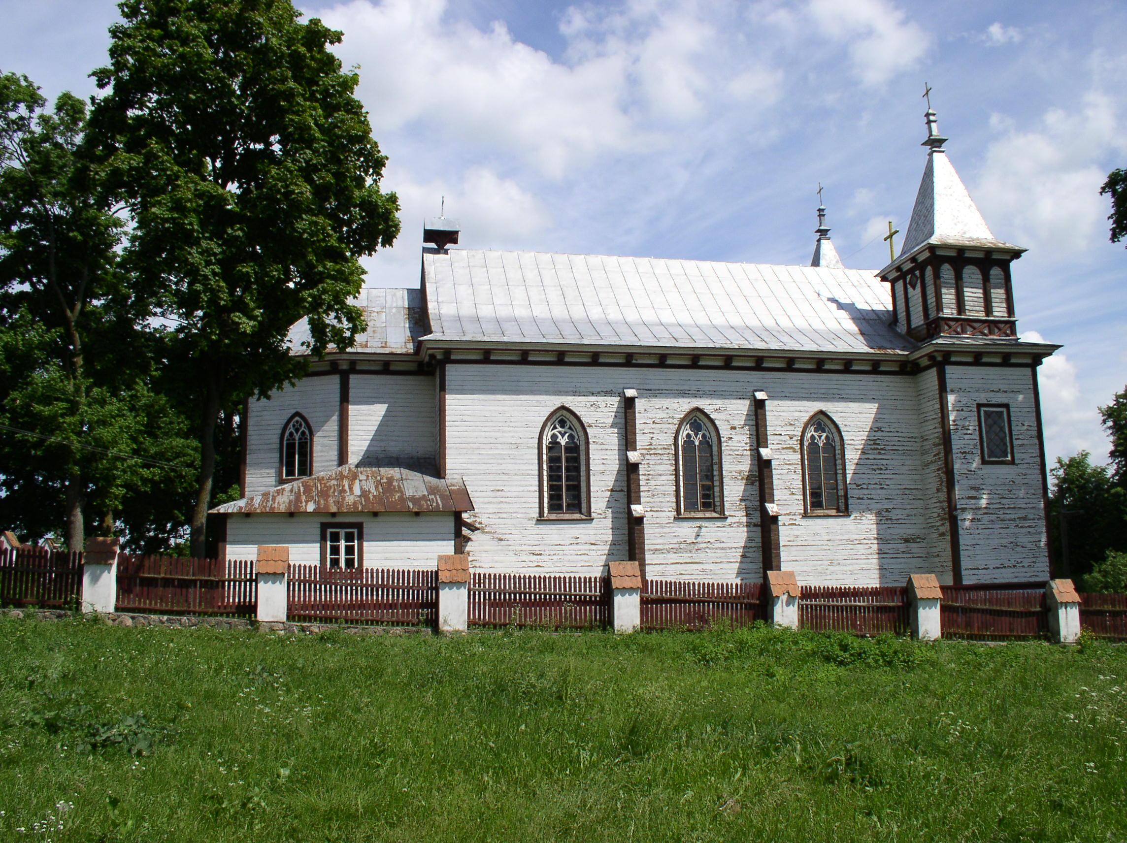 Church of Saint George. Palanechka, Belarus